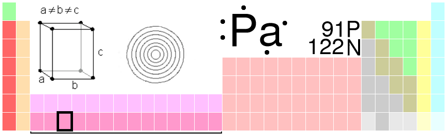 This image was copied from . The original description was: Protactinium table image created by schnee, June 22, 2003 for Wikipedia.